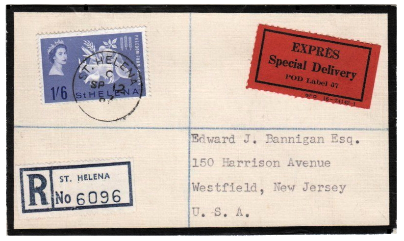 1967 St Helena Registered Express mourning cover to USA paid 1shilling 6d. Backstamp is dated 19 Oct 1967 Springfield, New Jersey.